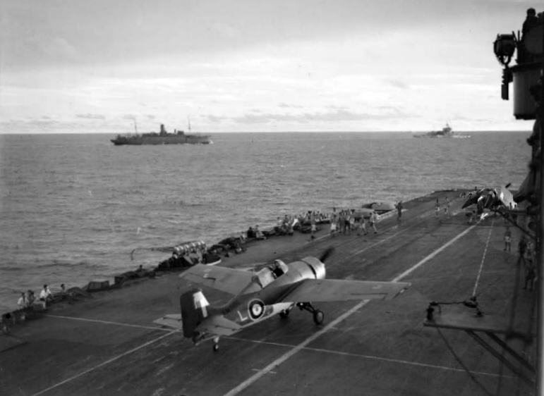 After landing a Royal Navy Grumman Martlet of 888 Squadron, Fleet Air Arm is seen taxi-ing along the flight deck of HMS Formidable (67) to the forward hangar. HMS Warspite and the AMC Alaunia can be seen in the background during operations round Madagascar. The force left Colombo on 24 April and put into the Seychelles on 1 May. The Fleet Air Arm carried out extensive searches and patrols over a wide area during the operation. The covering force then put into Mombasa on 10 May after the operation was concluded. Two ships of the force can be seen in the distance